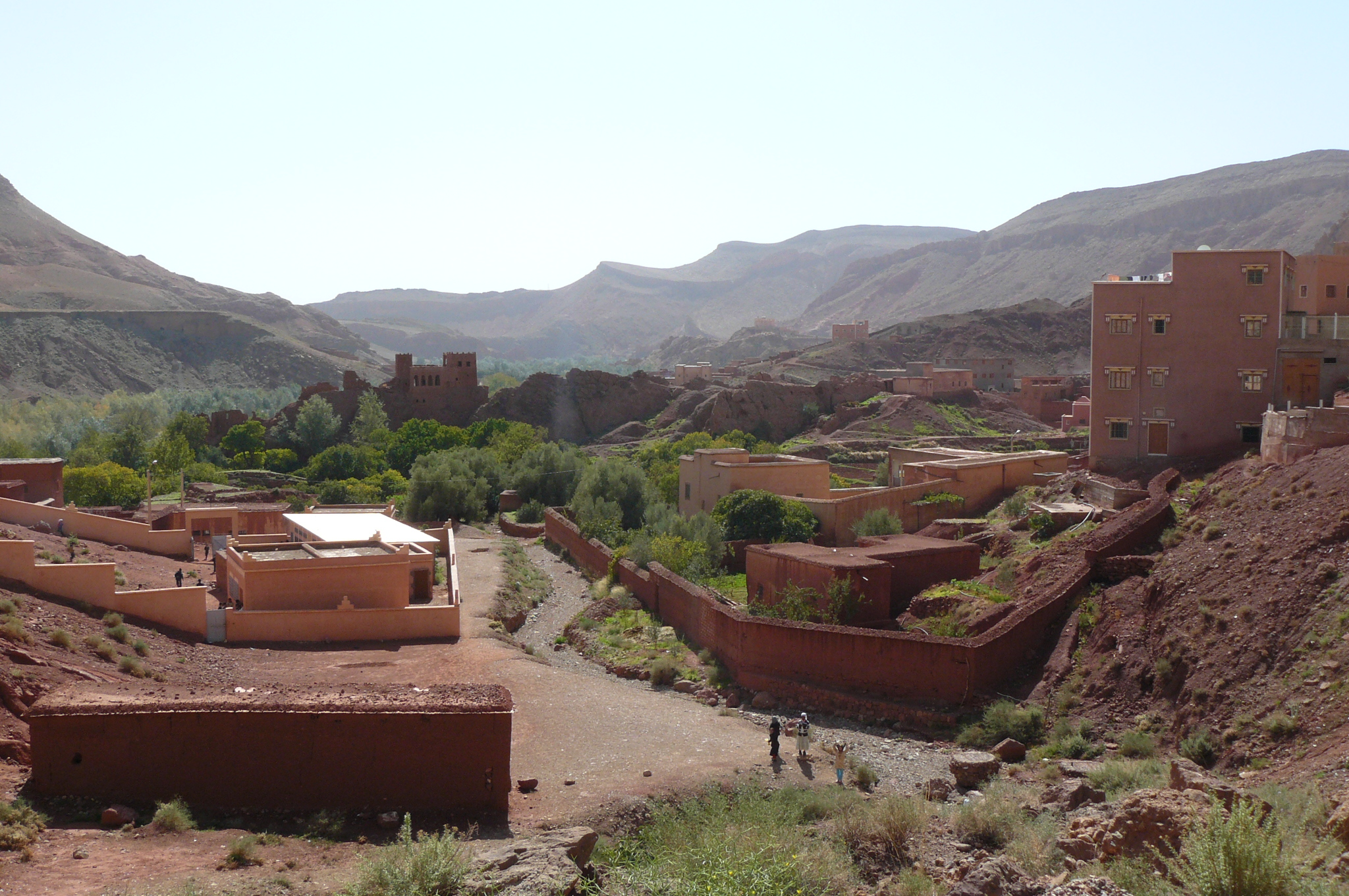 View from the road between Tinerhir and Ouzarzate, Morocco